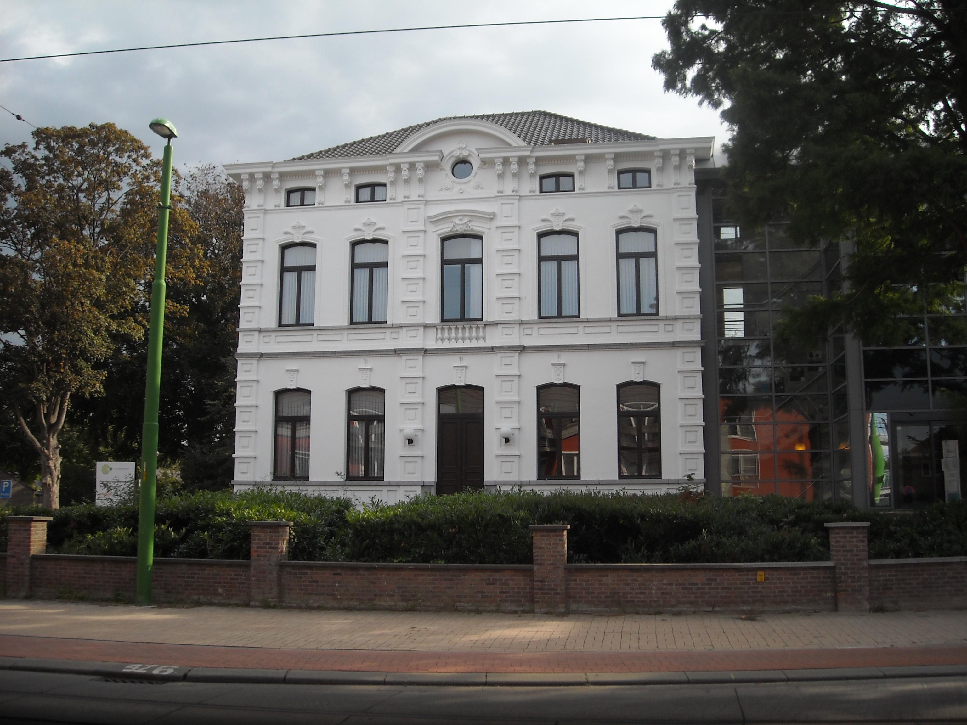 House of the type 'herenhuis', later 19th century. Dorp Oost 45, Zwijndrecht, Belgium. Currently used as OCMW offices.